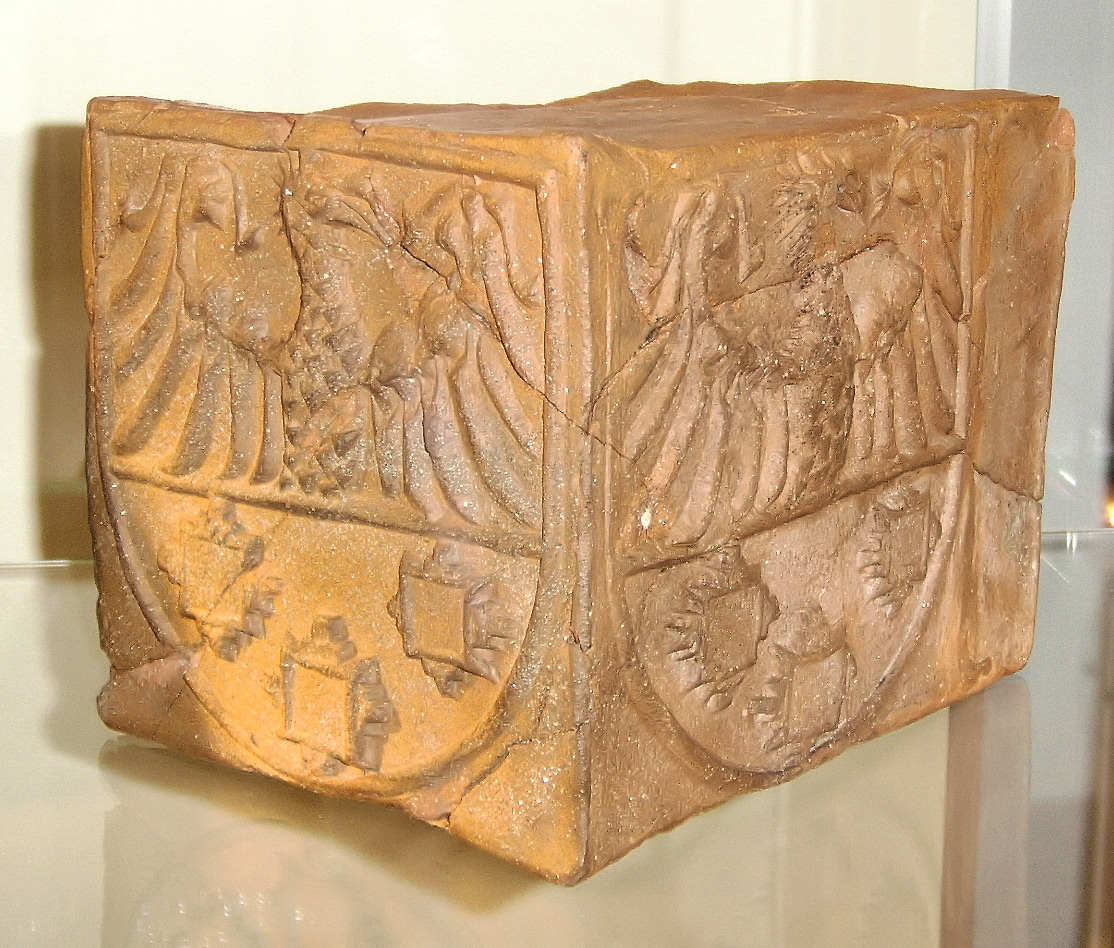 Corner 'kafel' with the coat of arms sulima (XV century) in the Archaeological Museum in Biskupin